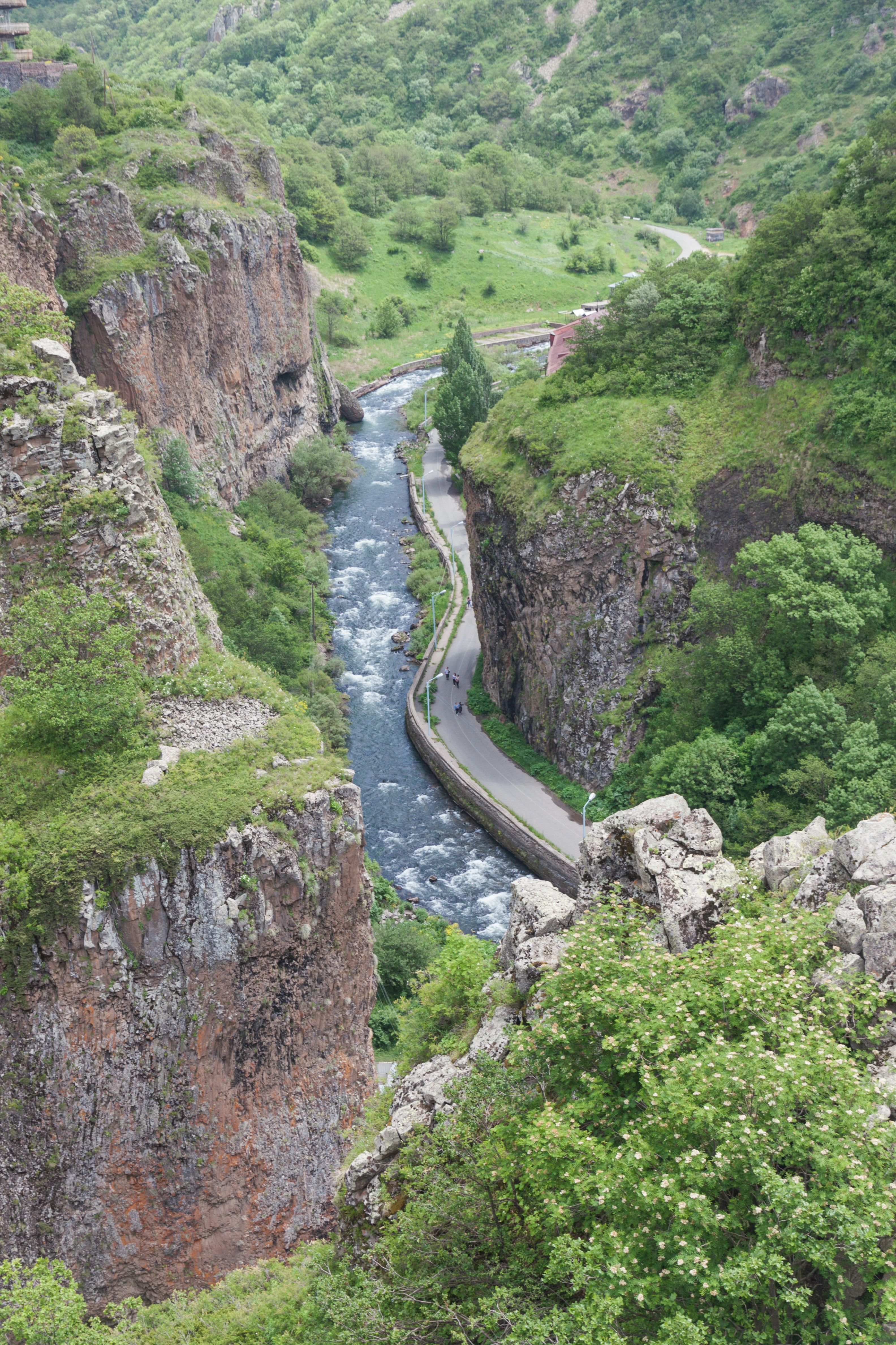 The view from the bridge over the Arpa river. Jermuk, Vayots Dzor Province, Armenia.